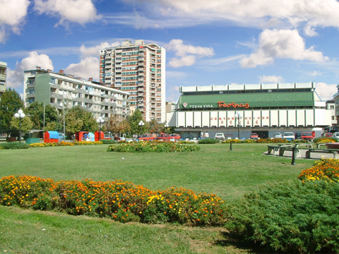 Leskovac central park